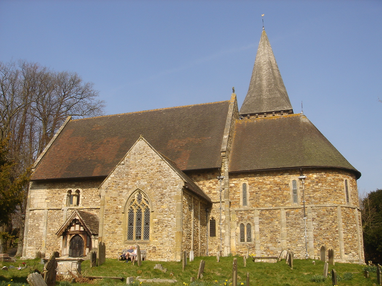 St Nicholas Church, Worth, Borough of Crawley, England. The 10th- or 11th-century parish church of Worth, originally a small village in the Mid Sussex District of West Sussex until it became part of Crawley. Listed at Grade I by English Heritage (IoE code 363409)